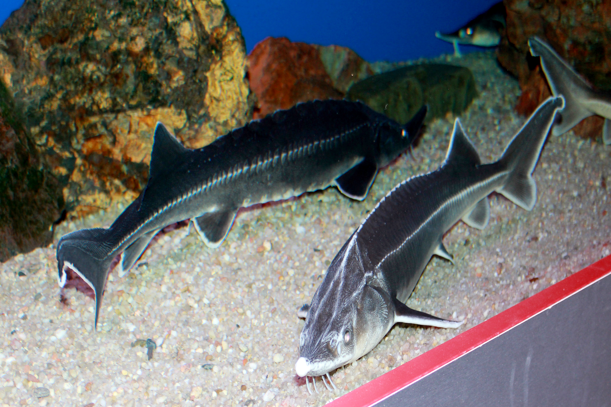 Fish Sterlet on exhibition Subaqueous Vltava, Prague 2011, Czech Republic